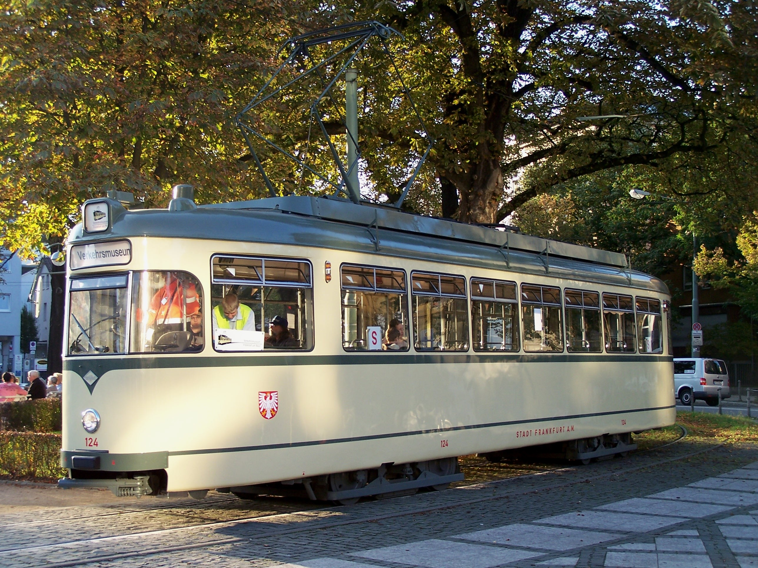 VGF L-railcar 124 restored to the state of the 1960s of the Frankfurt on Main Transport Museum in the terminal loop at Frankfurt Zoo